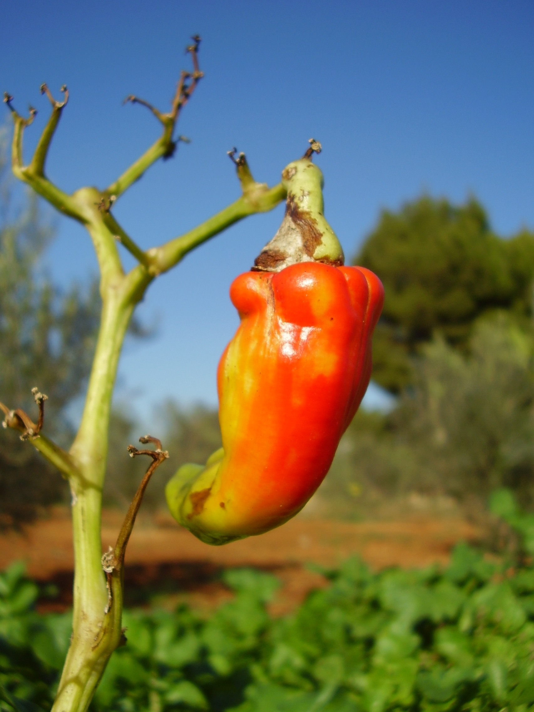 Bell pepper Capsicum (Capsicum baccatum ??) Mallorca.